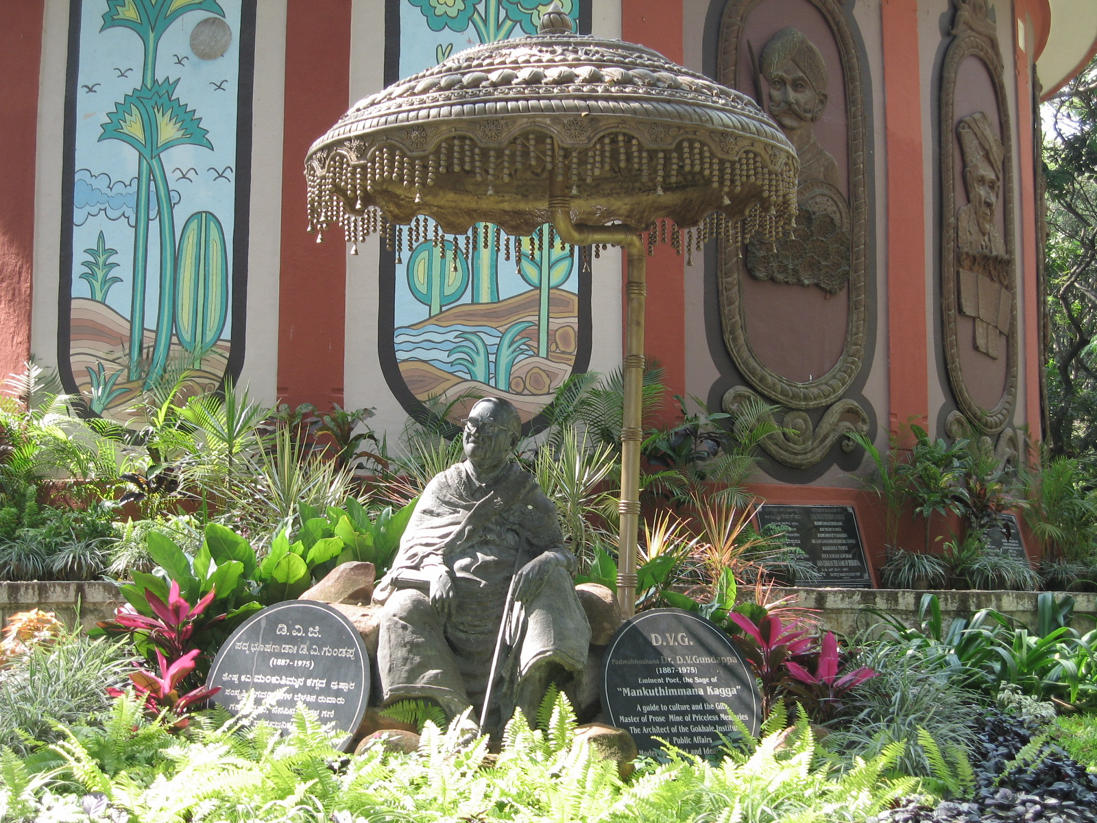 A statue of Kannada litterateur, philosopher and Jnanapeetha Awardee D V Gundappa(popularly known as DVG) at Bugle Rock Gardens, Bengalooru, INDIA. Founder of Bengaluru city, Kempe Gowda and Bharata Ratna Sir M V Vishweshwariah are seen behind.